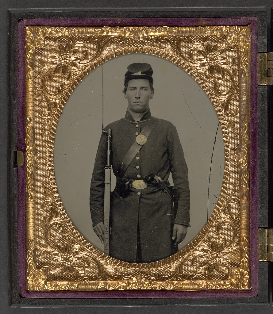 Isaac Yost of Company C, 118th Regiment Illinois Infantry, standing in uniform with bayoneted musket and revolver. Photograph shows identified soldier in Union uniform, who died of congestive fever at a hospital in Port Hudson, Louisiana, on January 27, 1864. Isaac Yost died of congestive fever at a hospital in Port Hudson, Louisiana, on January 27, 1864.